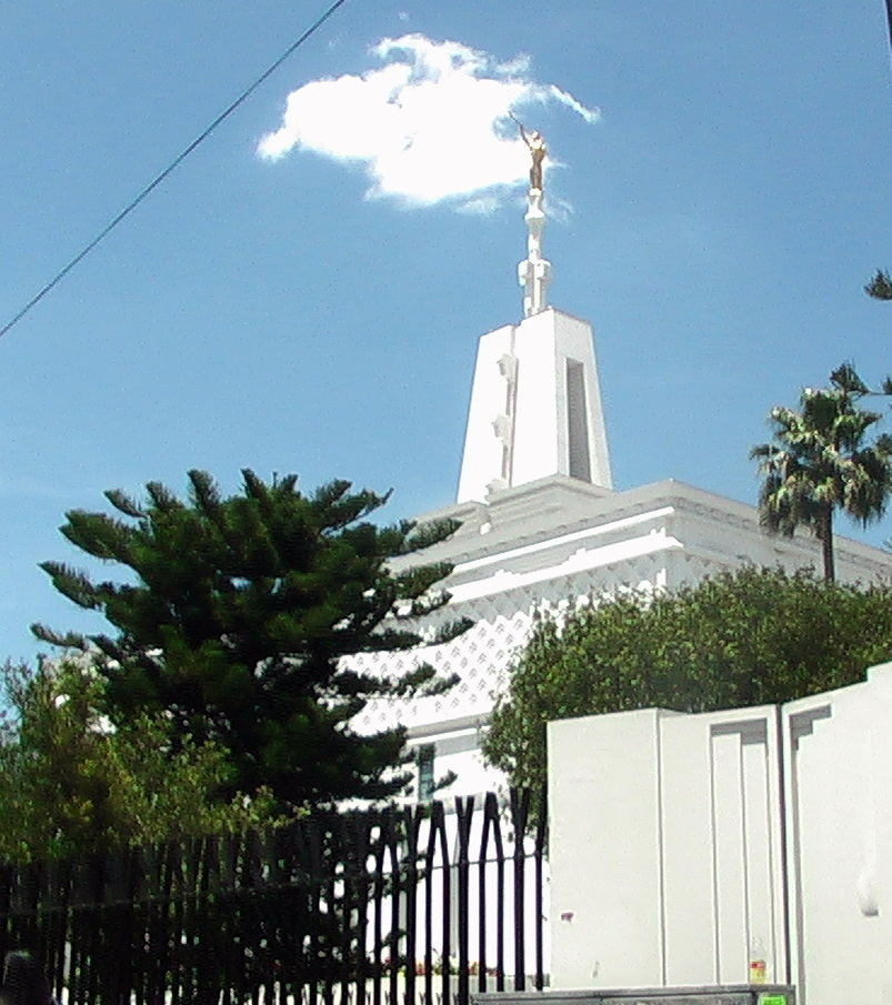 A view of the Mexico City Mexico Temple of The Church of Jesus Christ of Latter-day Saints.